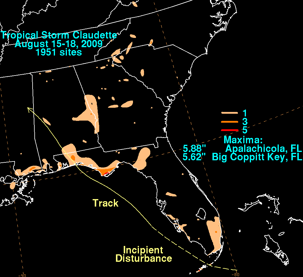 Storm total rainfall map of Tropical Storm Claudette during August 2009.